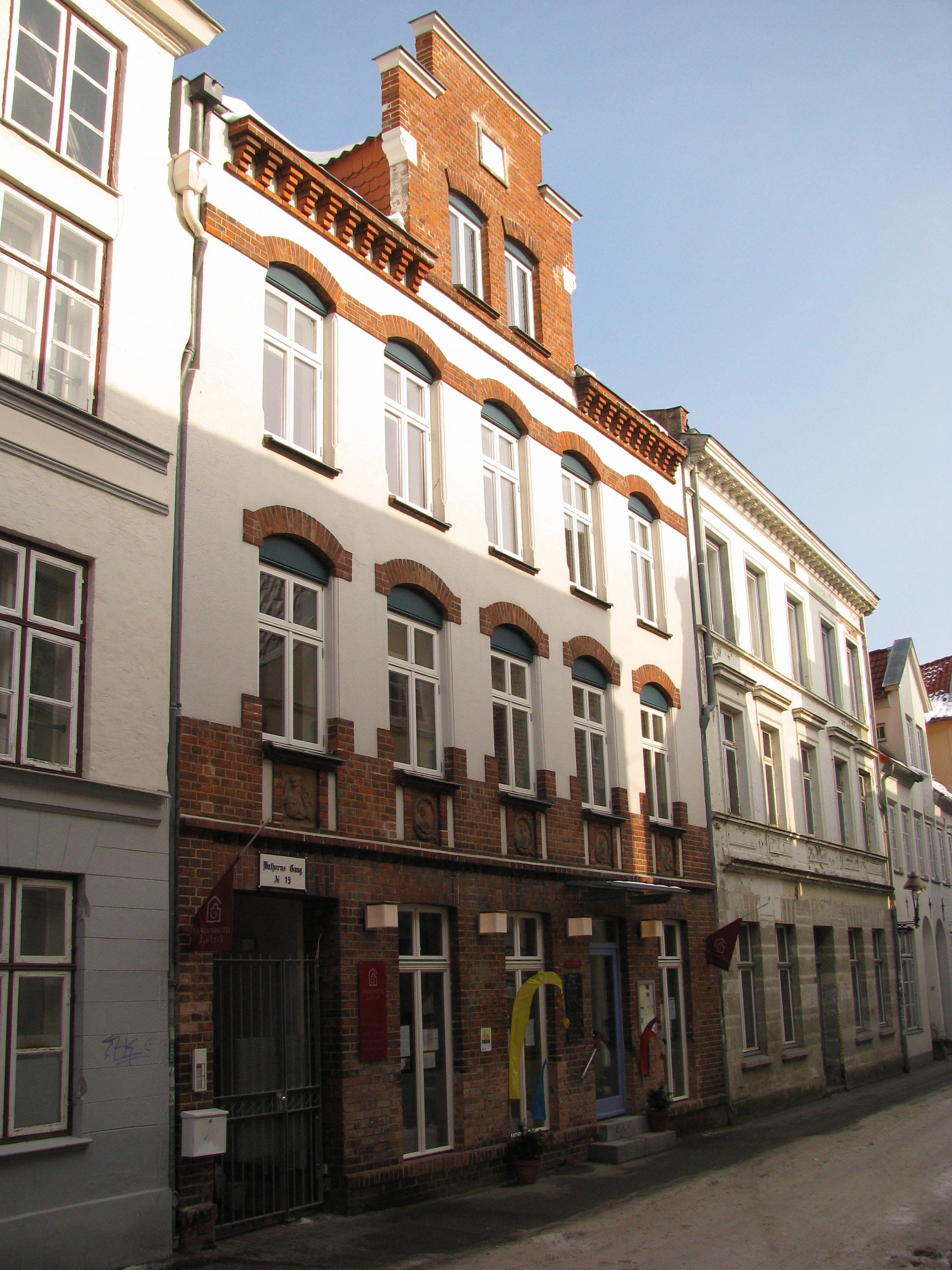 Today's Frauenhotel Luebeck at the site of Johann Balhorn's house in Luebeck, Hundestrasse 19-23